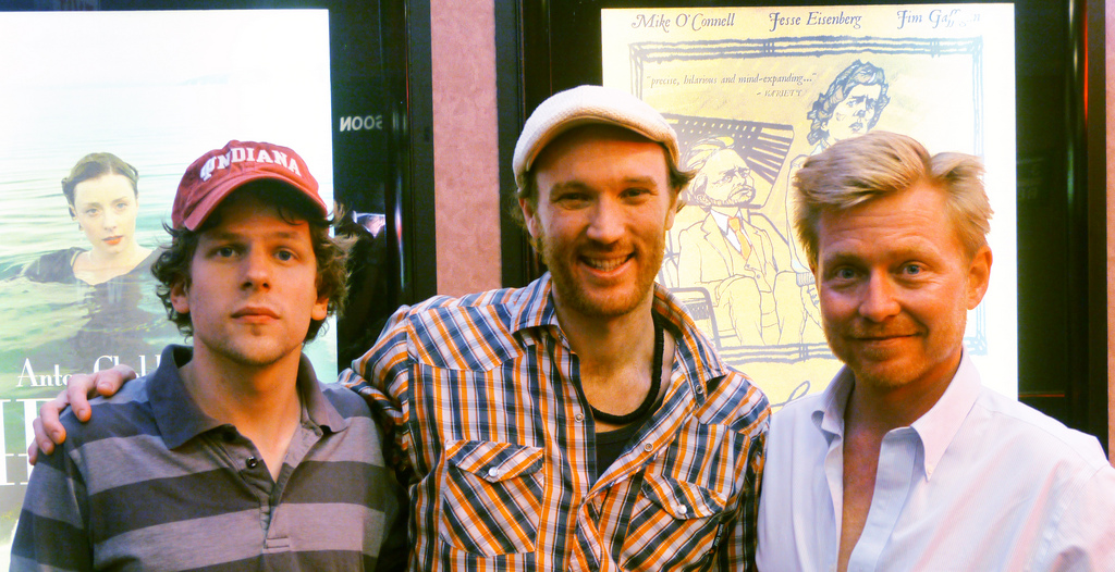 actor Jesse Eisenberg, director Sol Tryon and actor Mike O'Connell